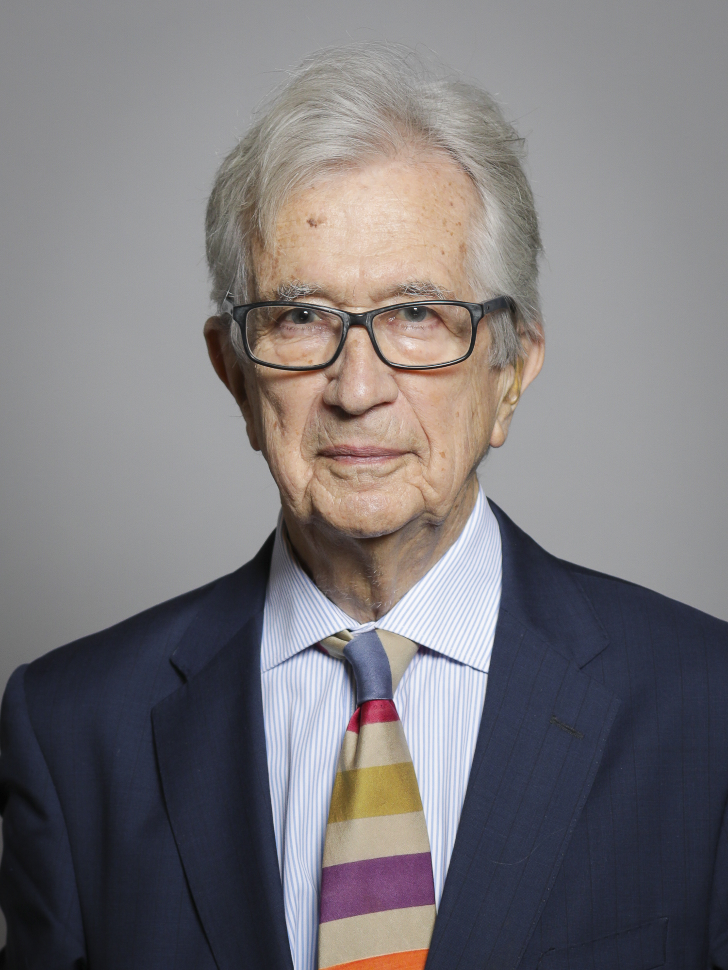 Official portrait of Lord Rodgers of Quarry Bank 3×4 portrait of Lord Rodgers of Quarry Bank